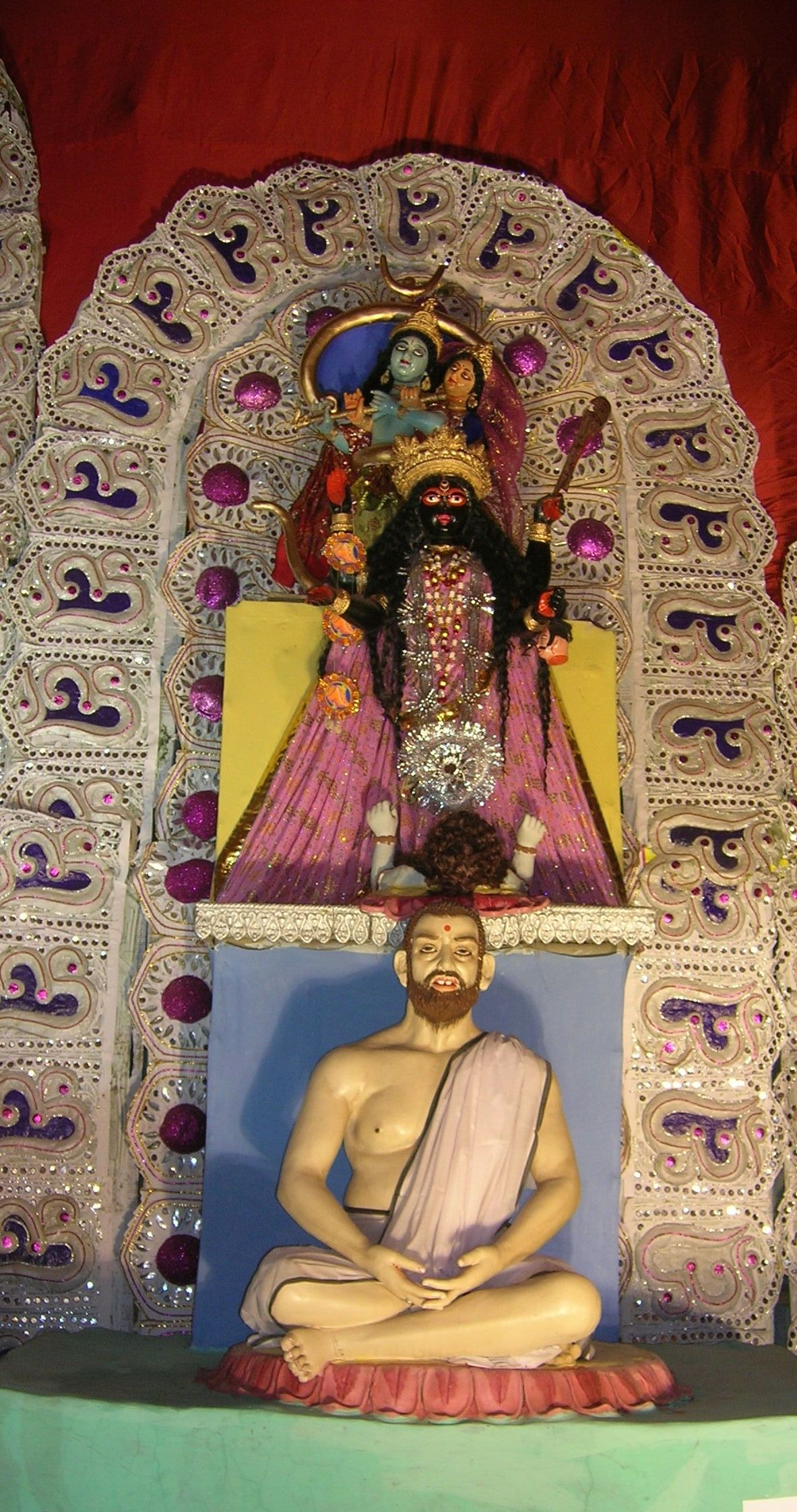 Adya Ma, imitation of Adya Ma idol installed at Adyapith Temple, Dakshineshwar. All Youth Friends' Club, Shakespeare Sarani, Kolkata.